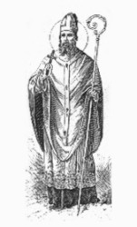 Saint Augustine of Canterbury